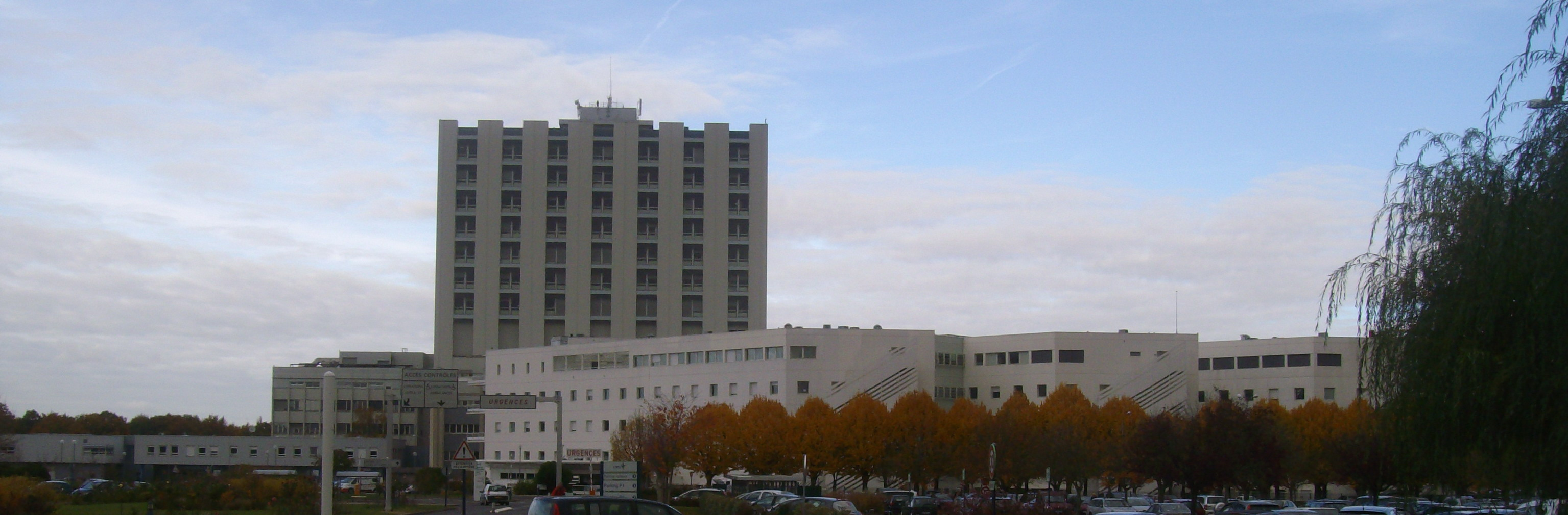 CHU Tours Trousseau